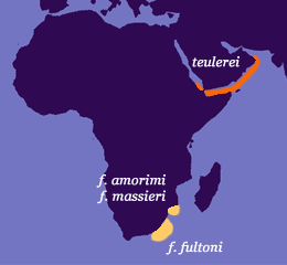 Barycypraea